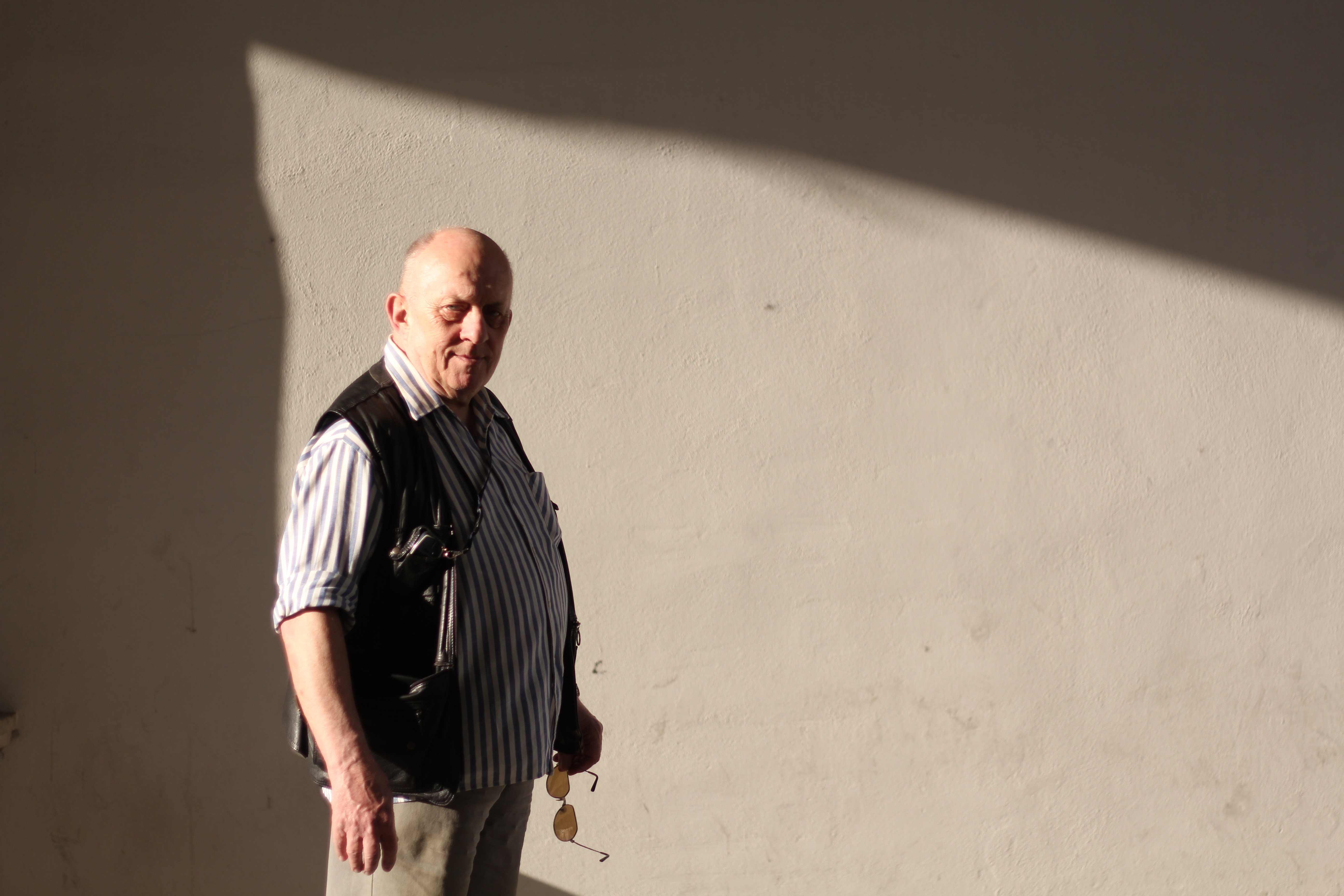 Andrzej Popiel (born 1936), Polish theatre and film actor, a longtime member of the ensemble of Danuta Baduszkowa Music Theatre in Gdynia; photographed in the Old Town of Gdańsk, Poland.